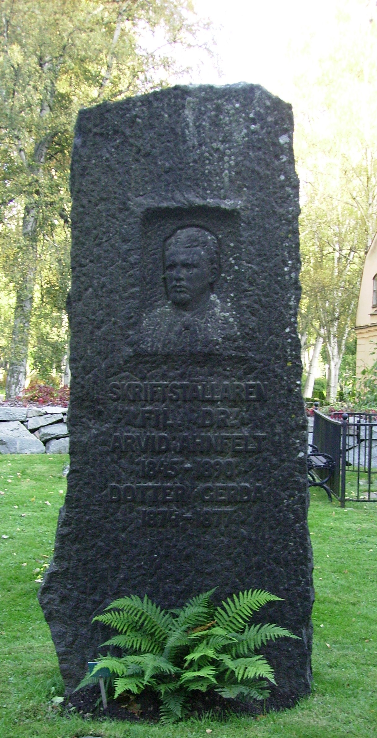 Picture of Arvid Ahnfelt's grave at Solna kyrkogård